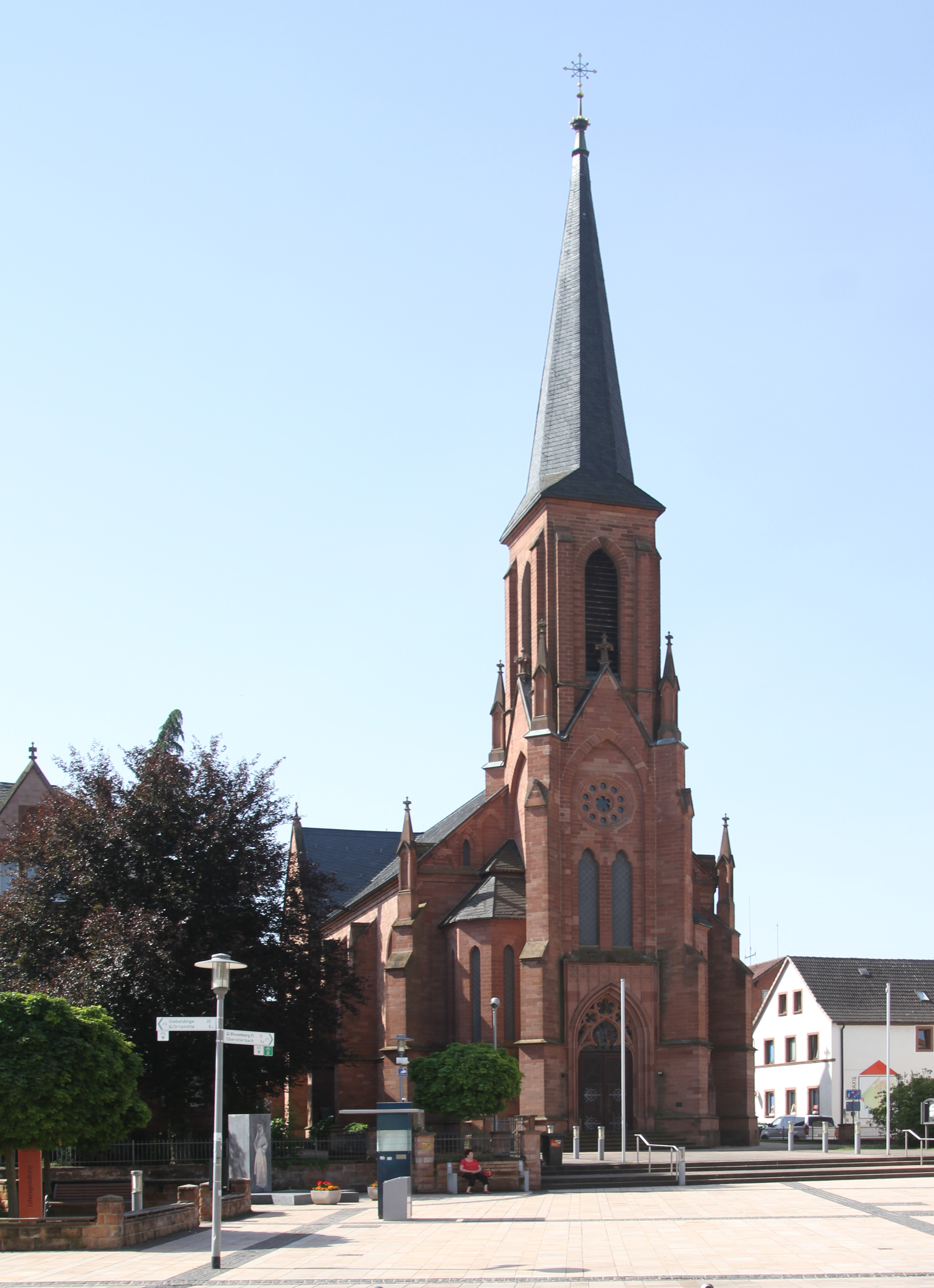 Church of Saint Martin in Bad Bergzabern.